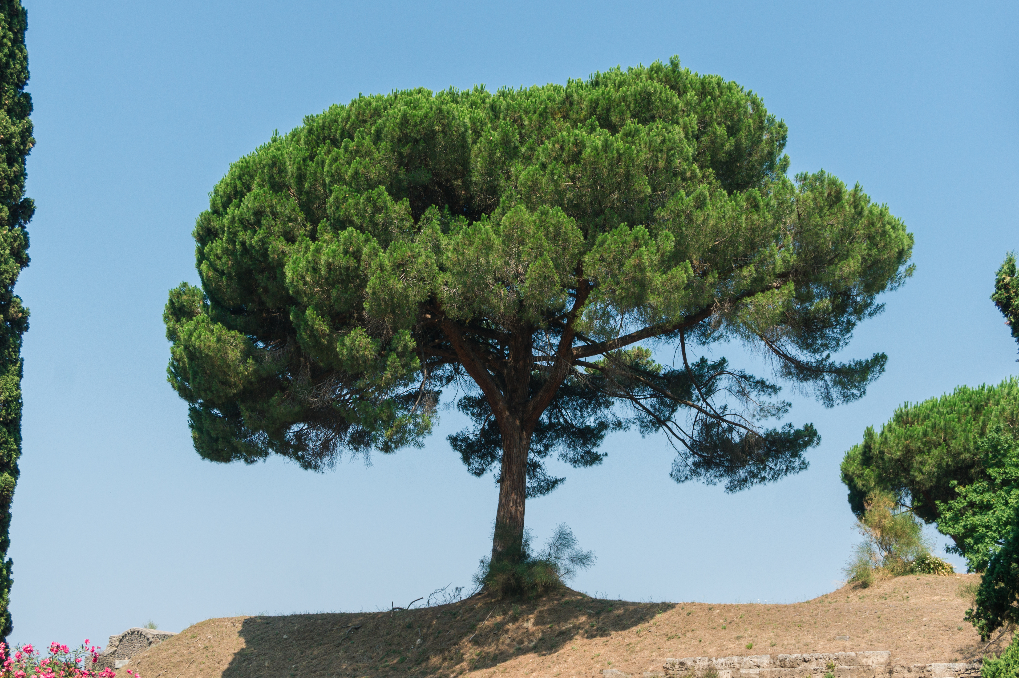 Pinus pinea, Pompeii, Italy.